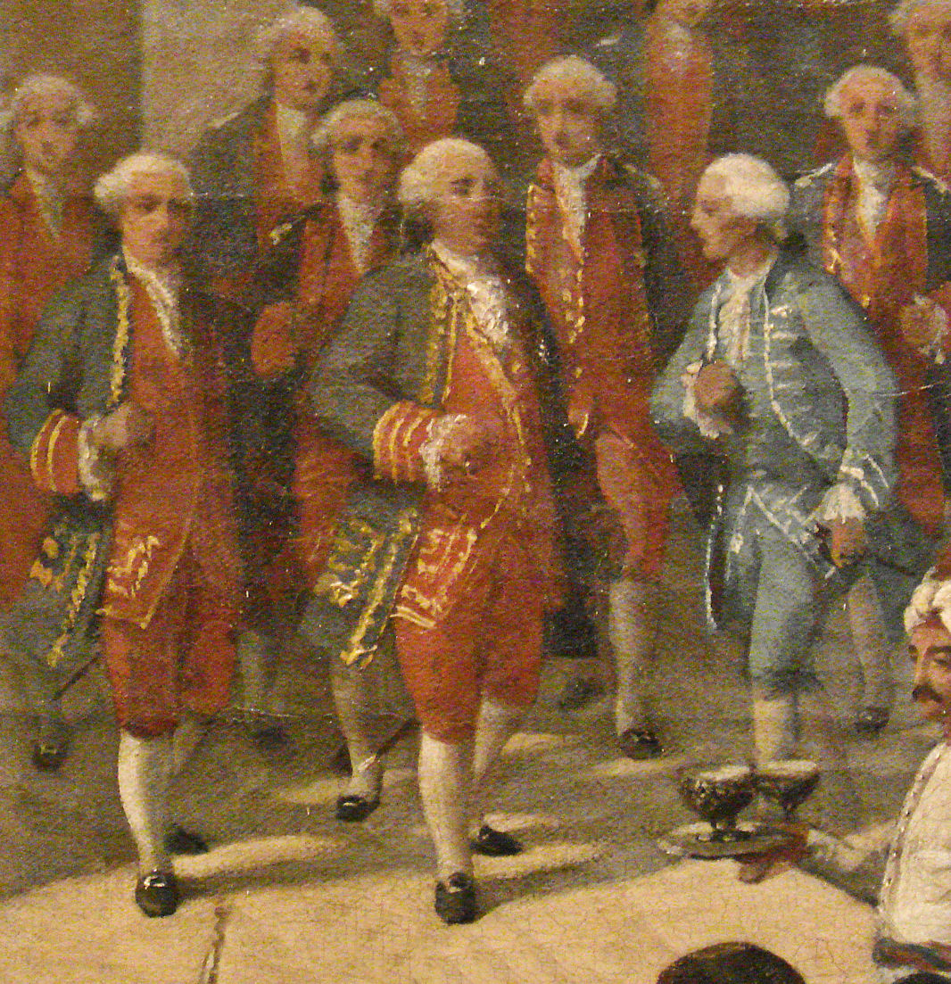 Joseph_de_Bauffremont_with_M_de_Broves_being_welcome_into_Smyrne_by_the_French_Consul_28_September_1766_detail.